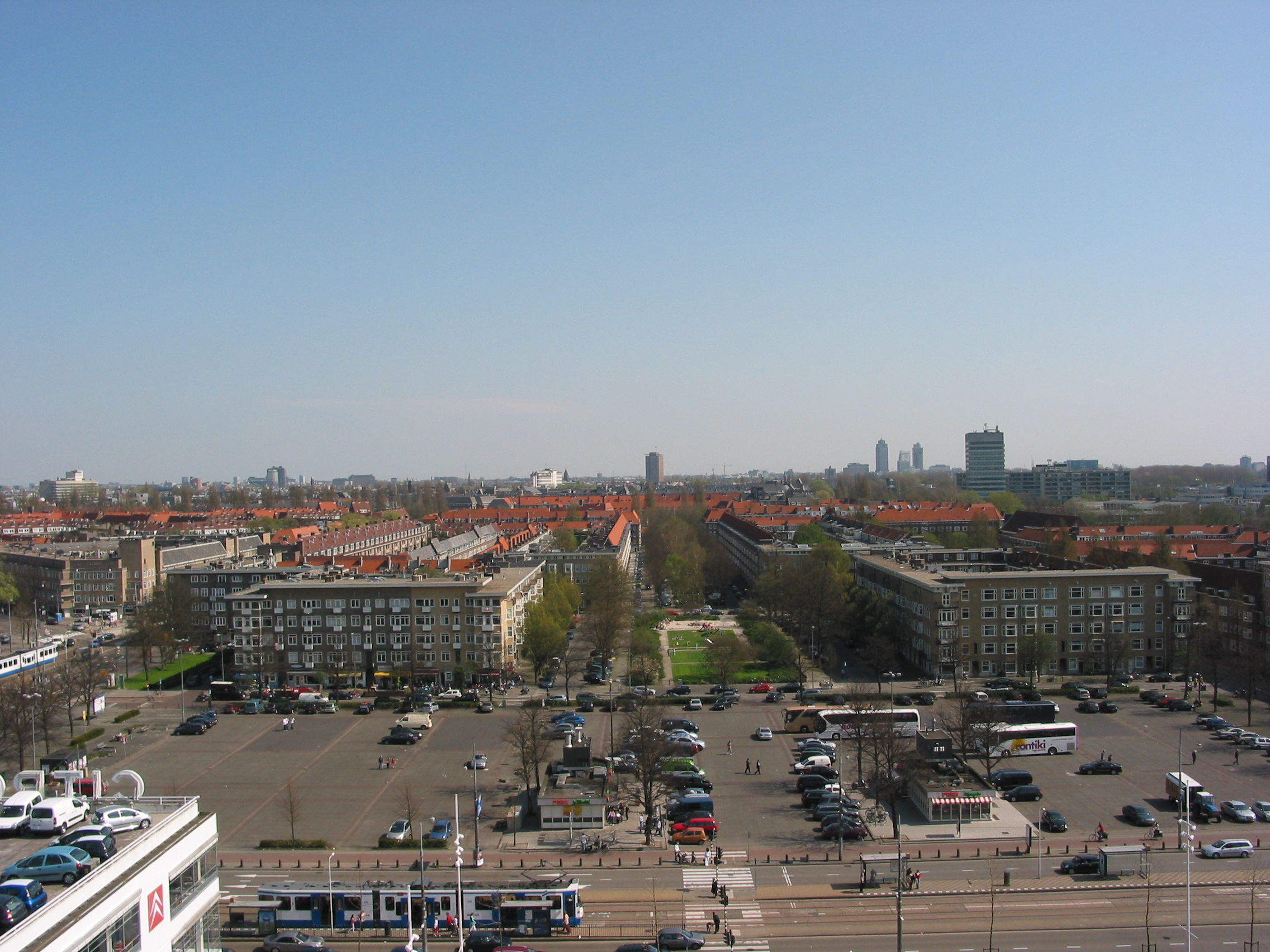 Stadionplein, Amsterdam, seen from the Marathon Tower.